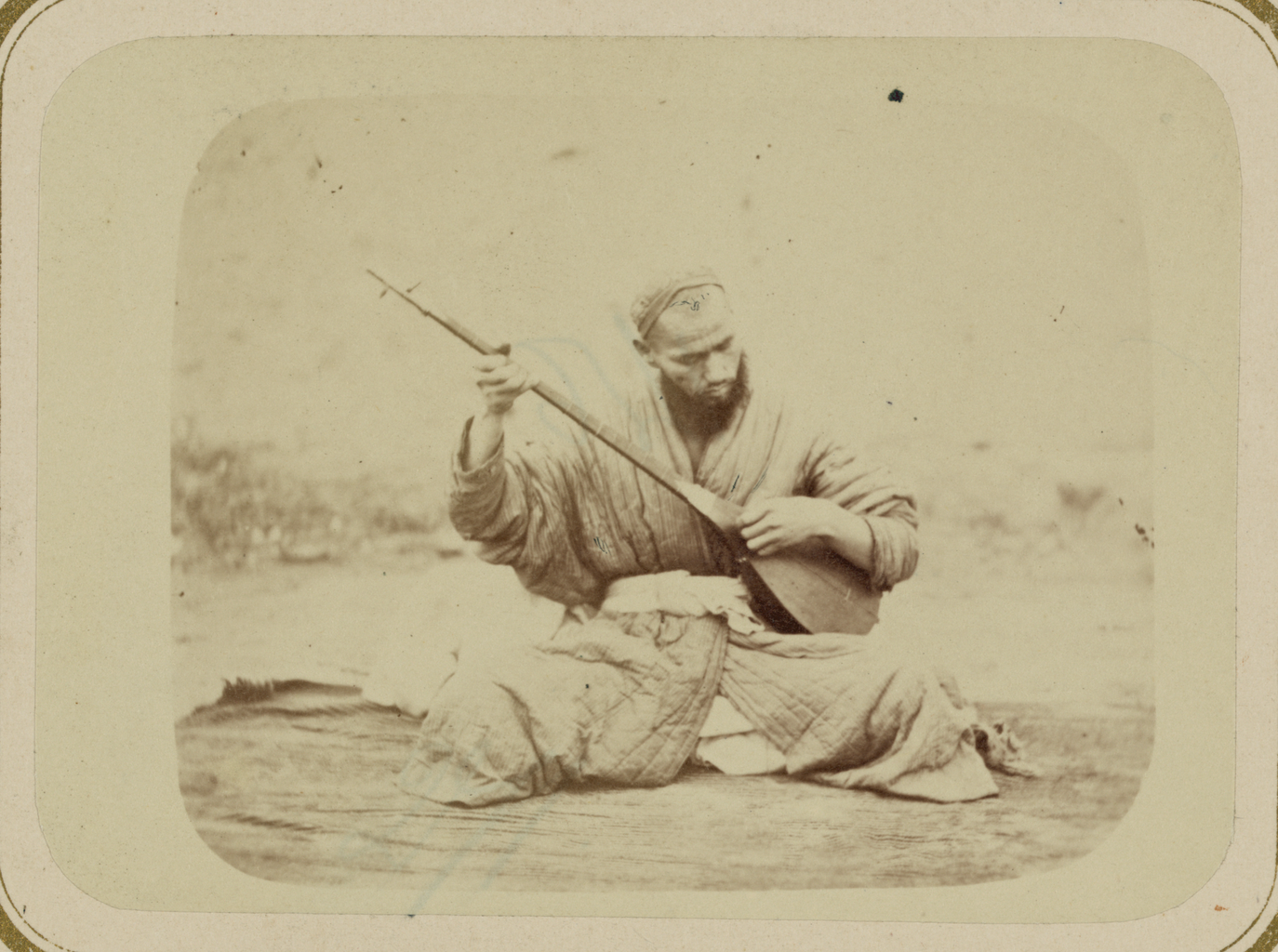 This photograph is from the ethnographical part of Turkestan Album, a comprehensive visual survey of Central Asia undertaken after imperial Russia assumed control of the region in the 1860s. Commissioned by General Konstantin Petrovich von Kaufman (1818–82), the first governor-general of Russian Turkestan, the album is in four parts spanning six volumes: “Archaeological Part” (two volumes); “Ethnographic Part” (two volumes); “Trades Part” (one volume); and “Historical Part” (one volume). The principal compiler was Russian Orientalist Aleksandr L. Kun, who was assisted by Nikolai V. Bogaevskii. The album contains some 1,200 photographs, along with architectural plans, watercolor drawings, and maps. The “Ethnographic Part” includes 491 individual photographs on 163 plates. The photographs show individuals representing the different peoples of the region (Plates 1–33); daily life and rituals (Plates 34–91); and views of villages and cities, street vendors, and commercial activities (Plates 92–163). Ethnographic photographs; Musical instruments; Musicians; Photographic surveys; Portrait photographs; Portraits; Turkic peoples